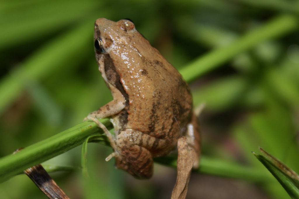 Taken at Lions Nature Education Centre. nb. This species has recently undergone some genetic boundary divisions and definition changes (Matsui et al. 2005). Previously M. ornata was listed as occurring in Hong Kong, but now this species is listed as restricted to the Indian Subcontinent and M. fissipes is the SE Asia and Chinese species. Most online data still reports M. ornata for Hong Kong.